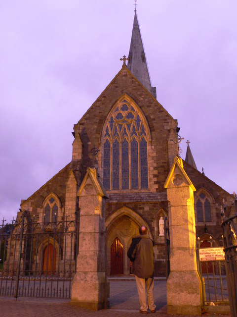 St Aidan's Cathedral, Enniscorthy Designed by Pugin and completed, except for the bell tower, in 1848.